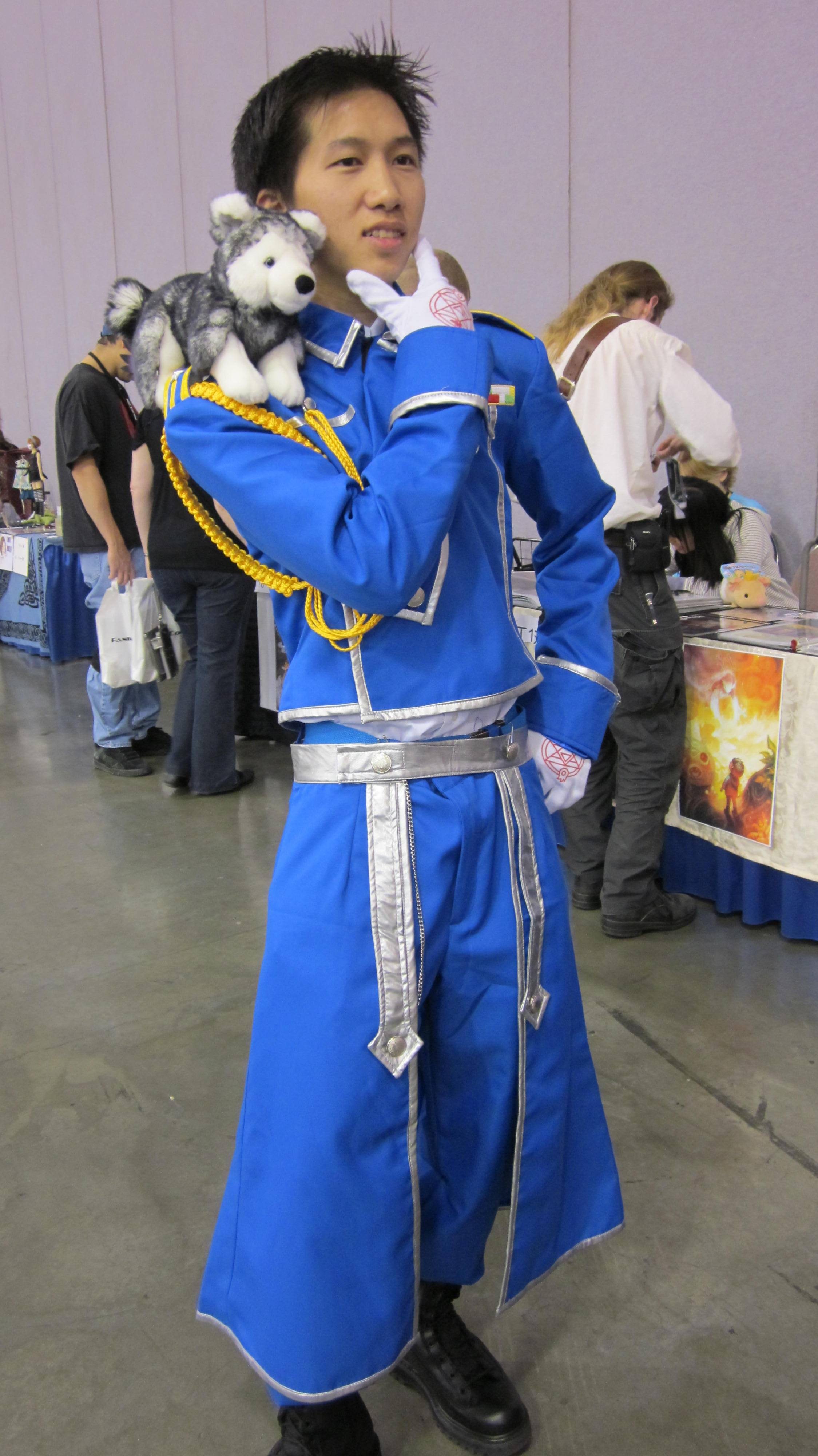 A cosplayer portraying Roy Mustang from Fullmetal Alchemist at FanimeCon 2010 in San Jose, California.